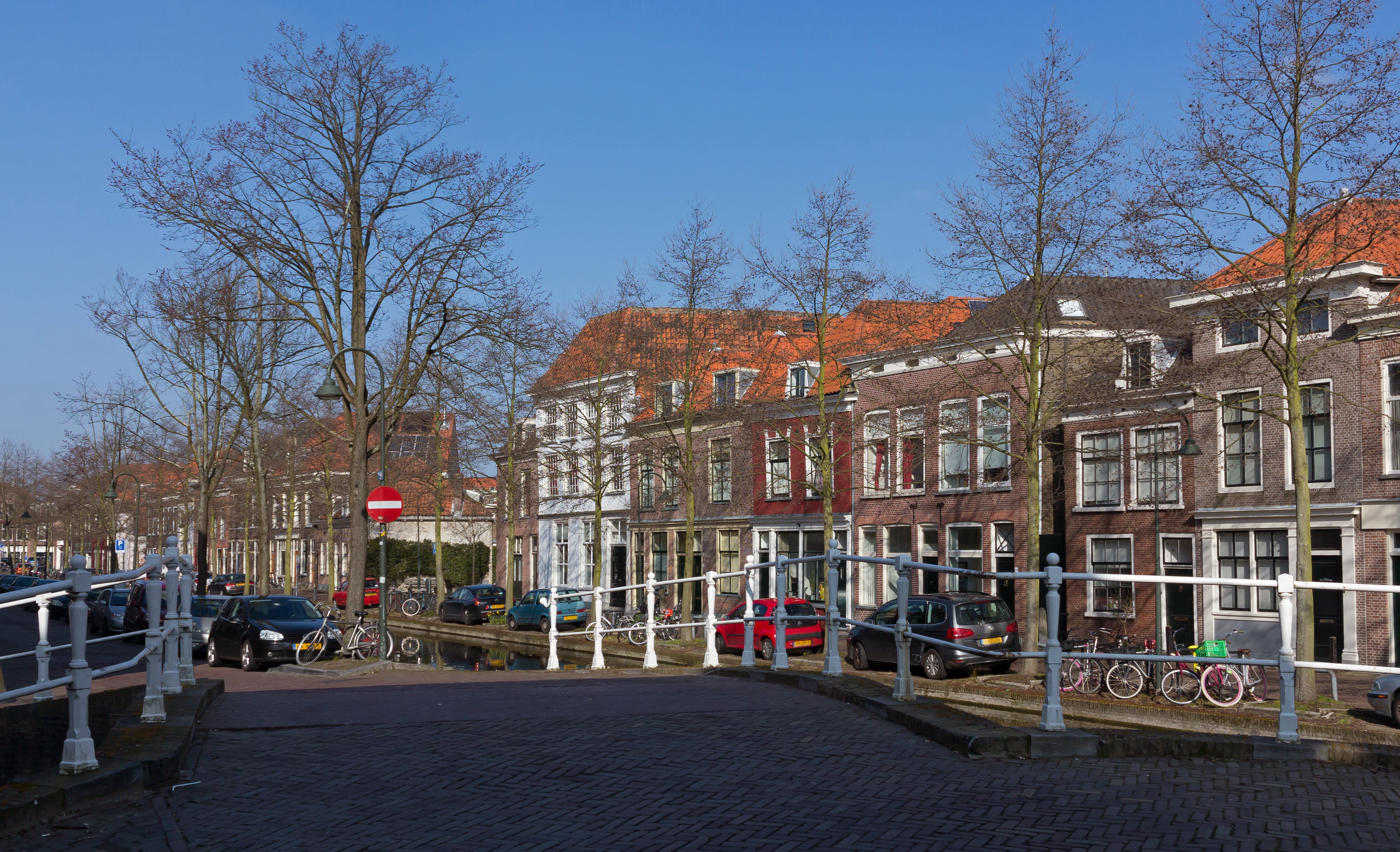 Delft, street view het Oosteinde from de Molslaan